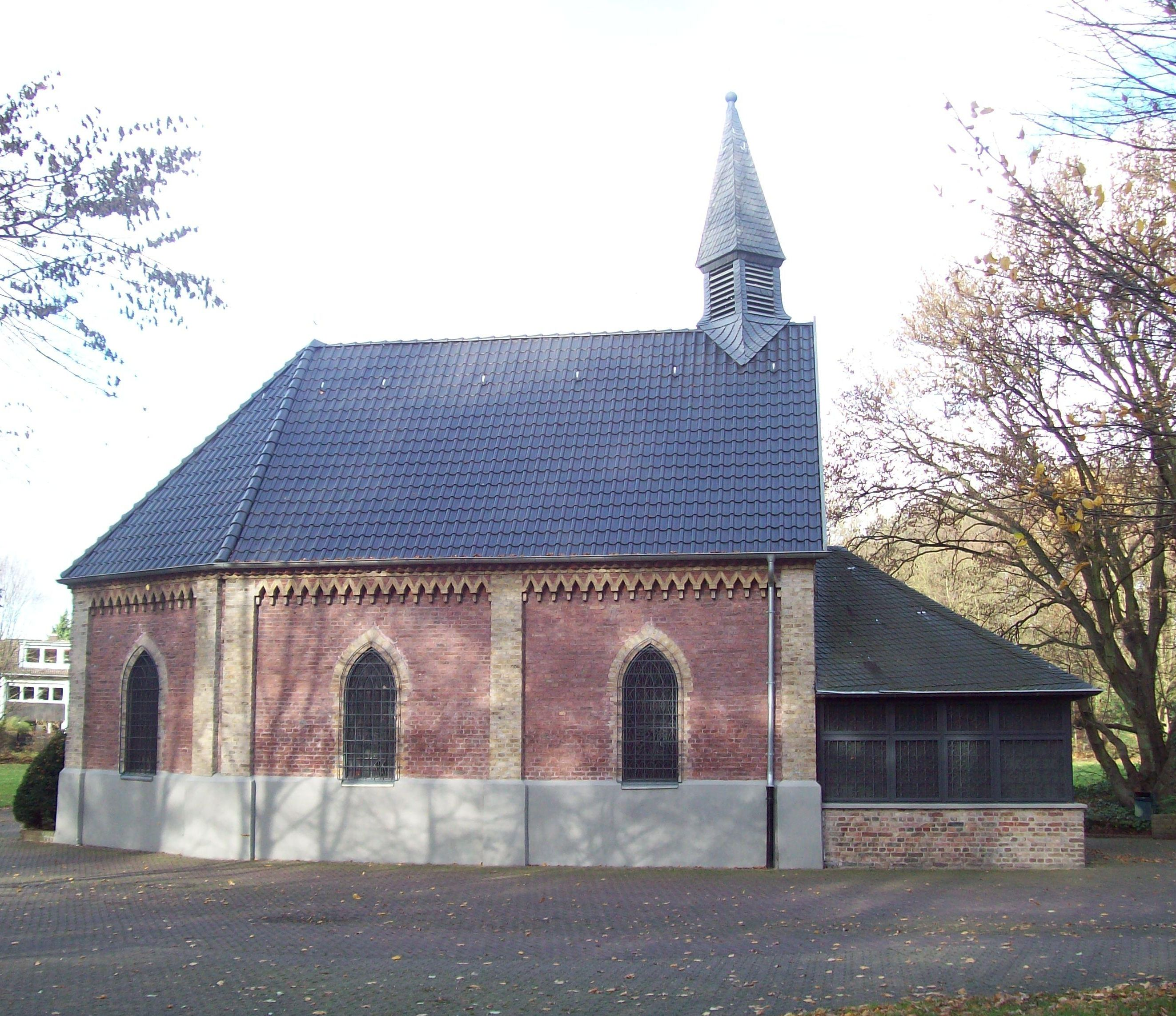 Gezelin-Chapel in Leverkusen-Alkenrath